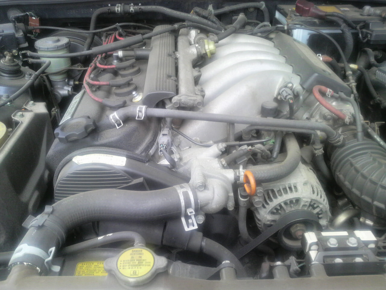 photo of Honda slant 5 G series engine